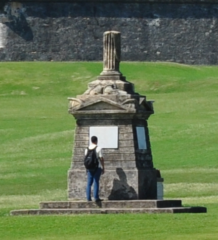 Monument at El Morro entrance honouring Capt. Juan de Amézqueta's defense of San Juan in 1625.